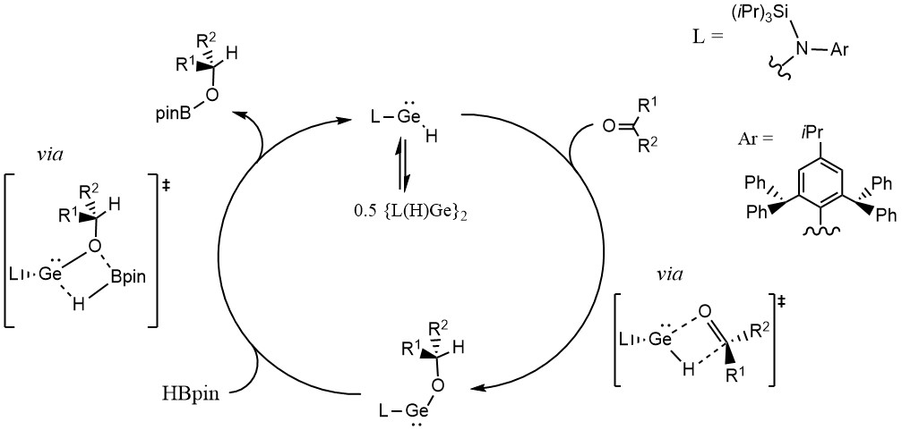 Proposed mechanism for hydroboration via germylene hydride catalyst